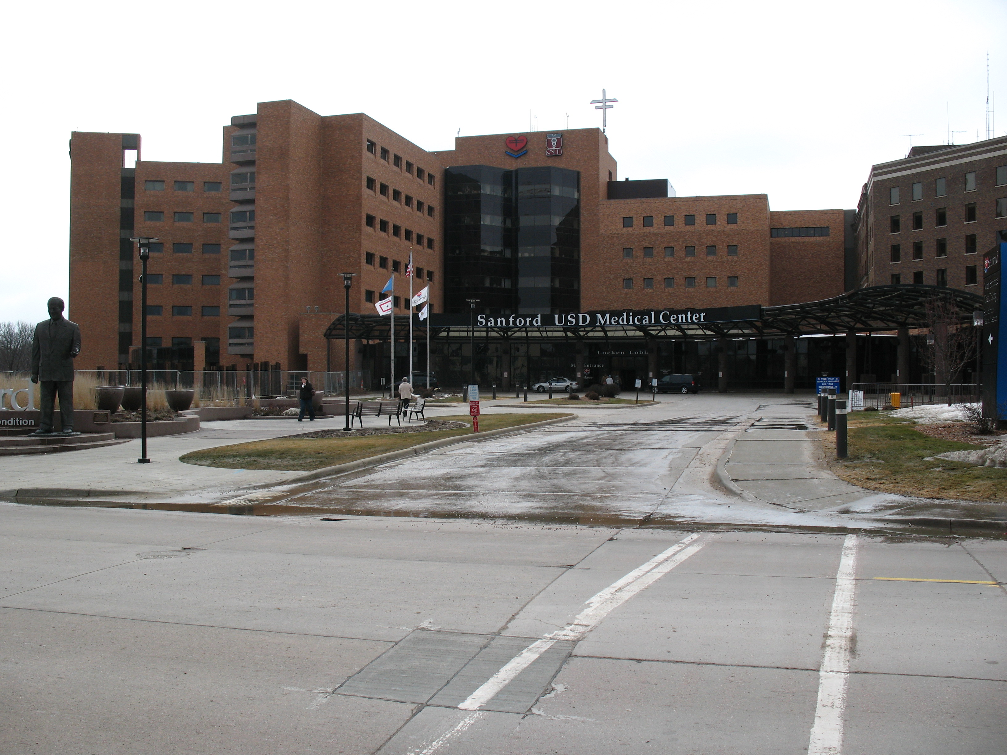 The main entrance to the Sanford Hospital in Sioux Falls, South Dakota.